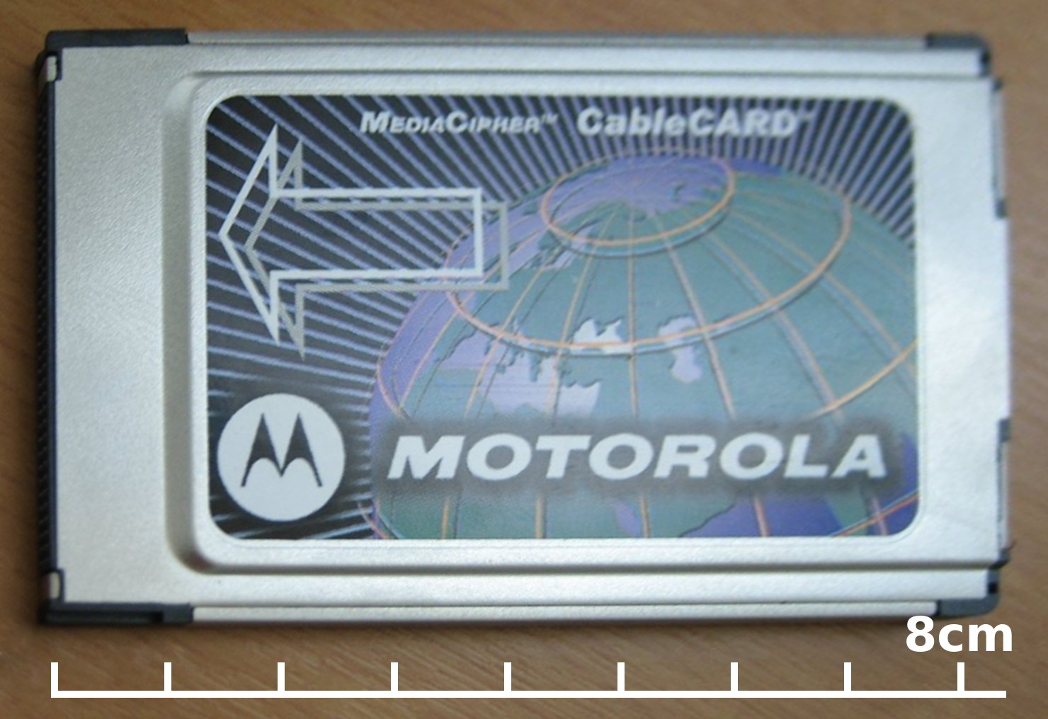 Single stream Motorola CableCARD